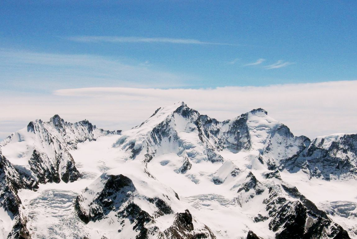 Dom and Täschhorn, Switzerland